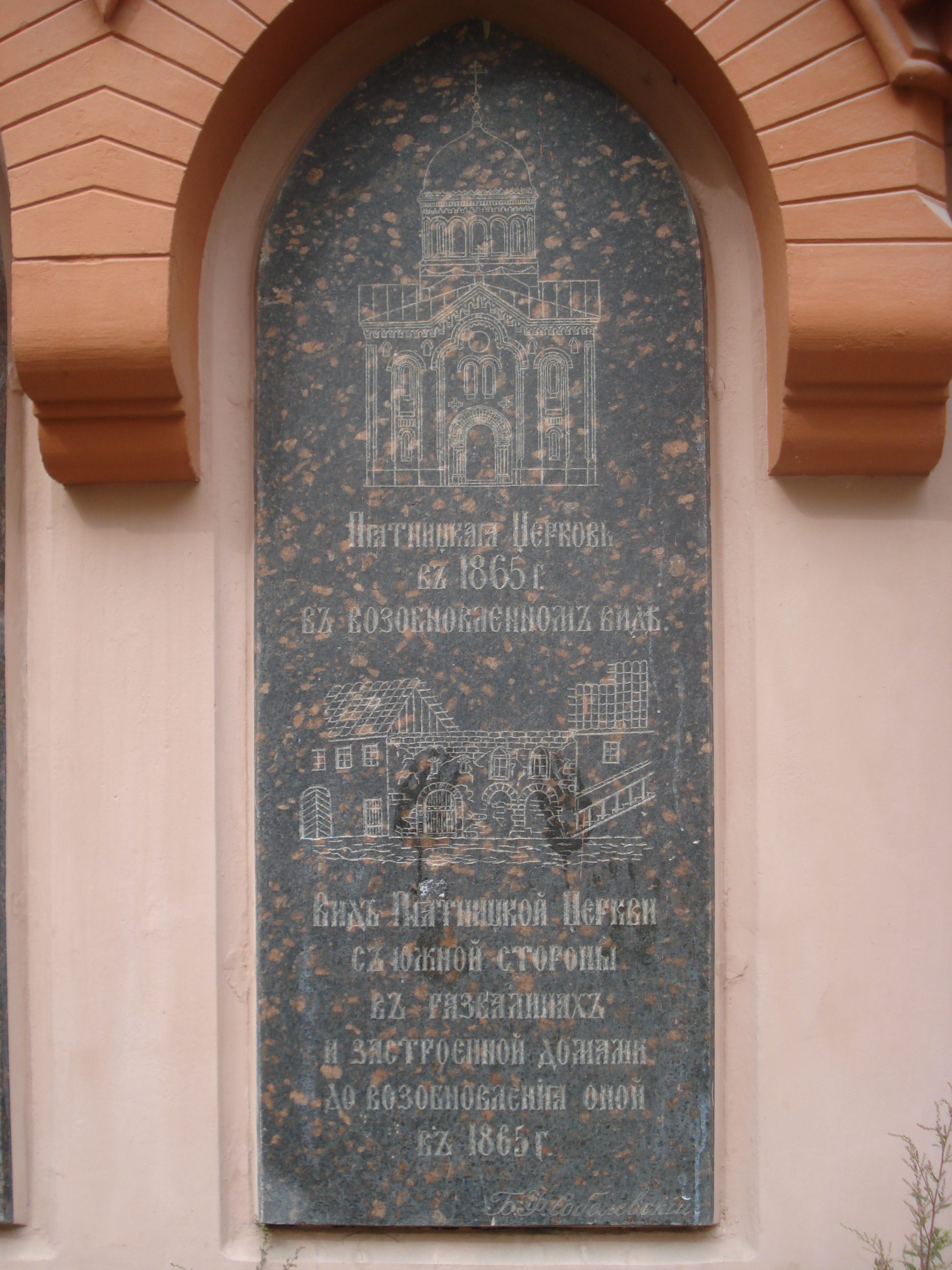 Memorial plaque on the another wall of the Russian Orthodox church of St. Parasceve (Didžioji g. 2): destroyed and restored church